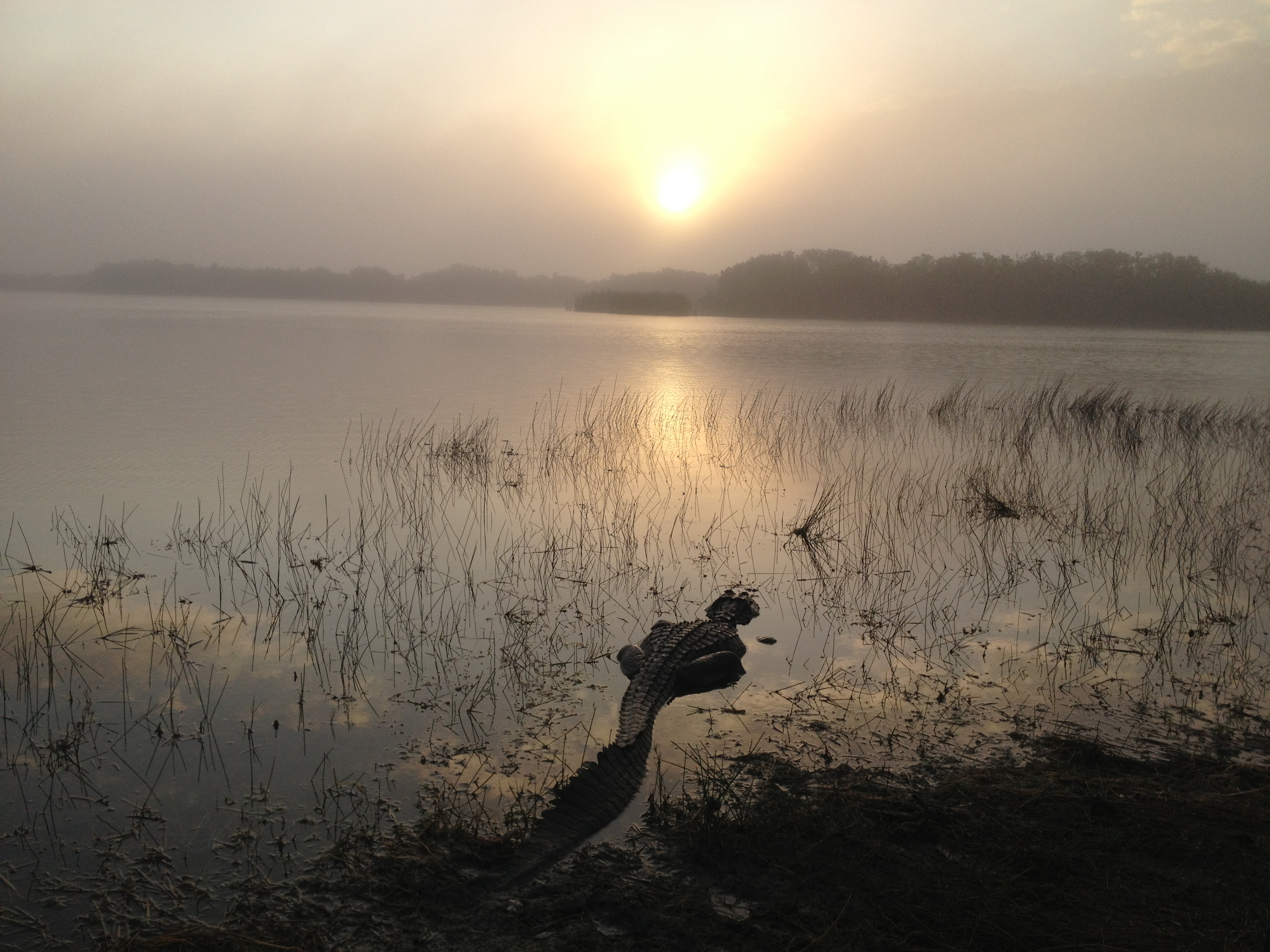 Nine Mile Pond, NPSPhoto, S.Cotrell